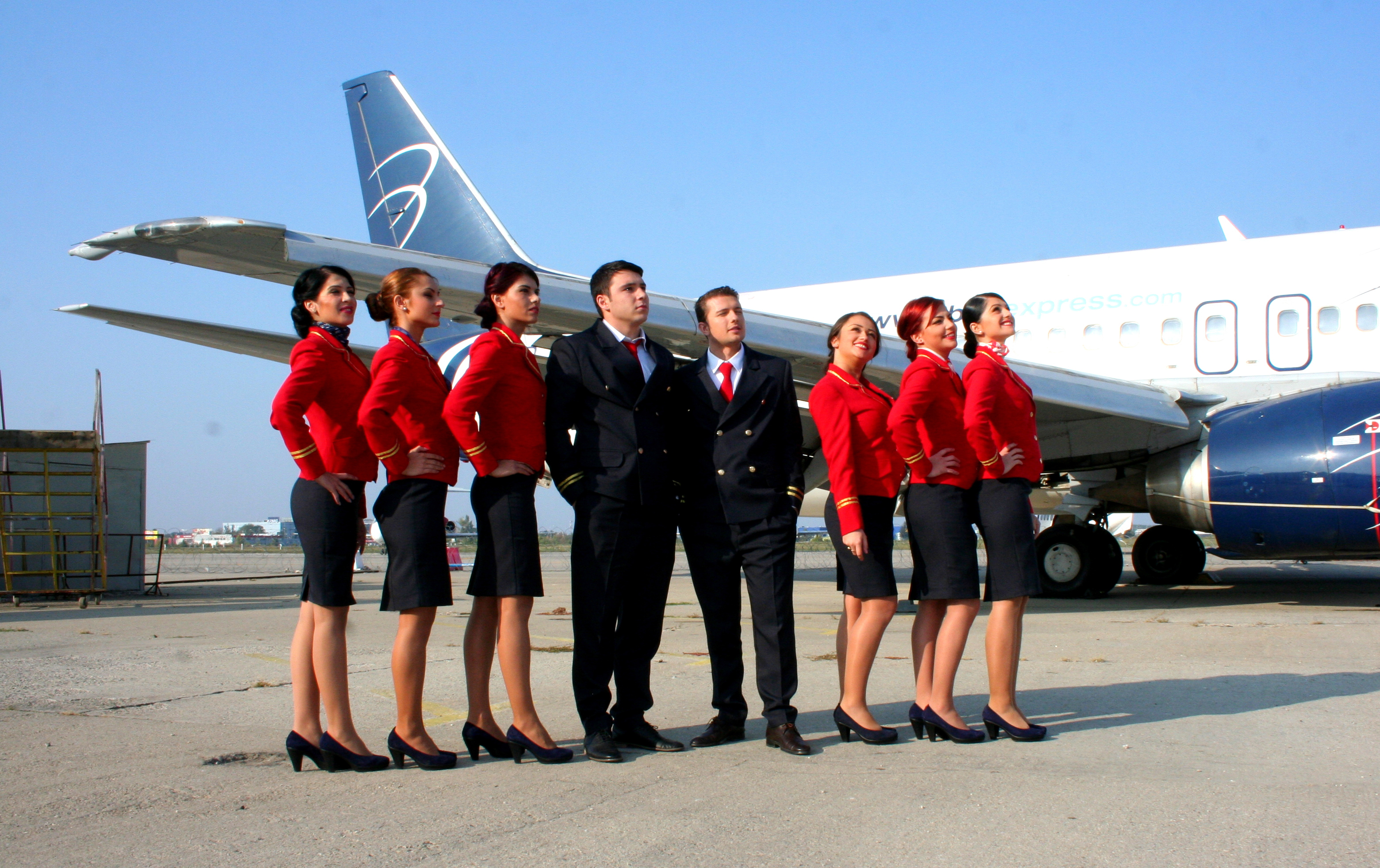 Fly Level's Cabin Crew Students